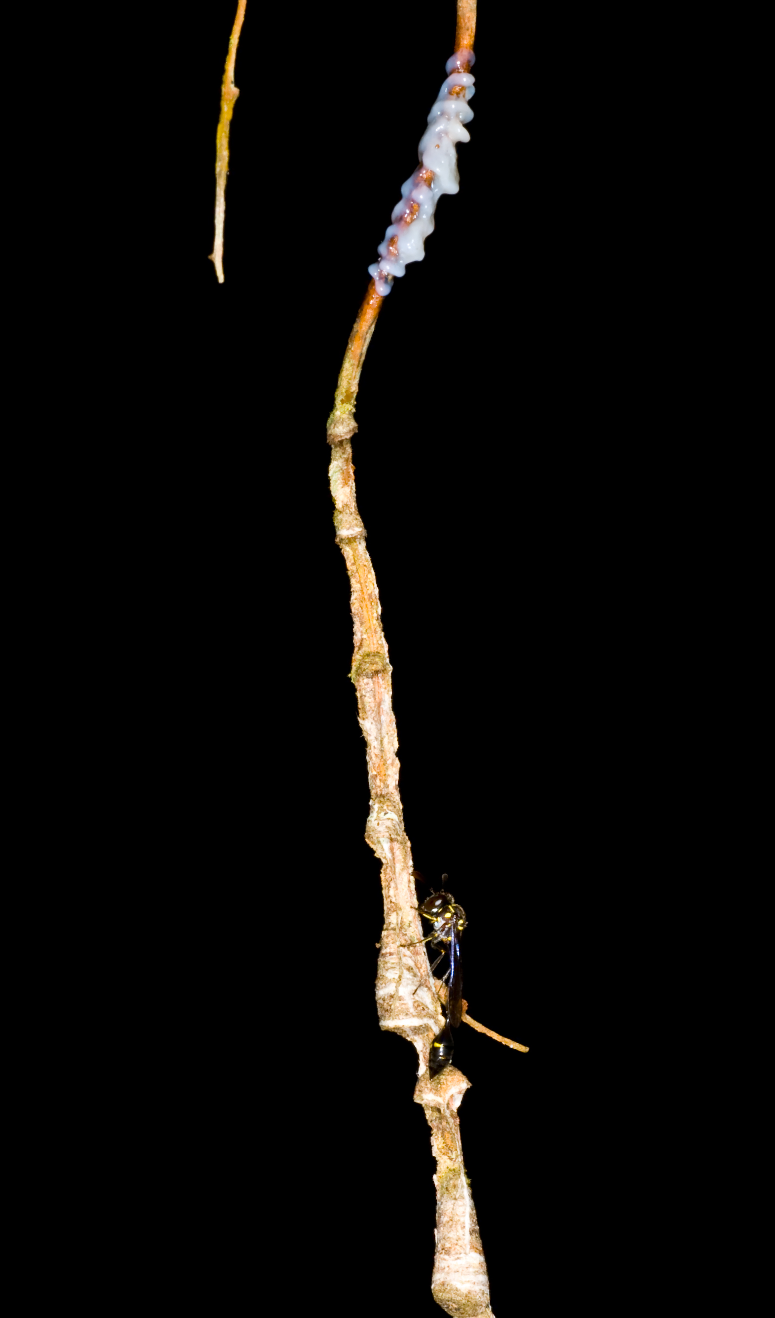 Ants guard